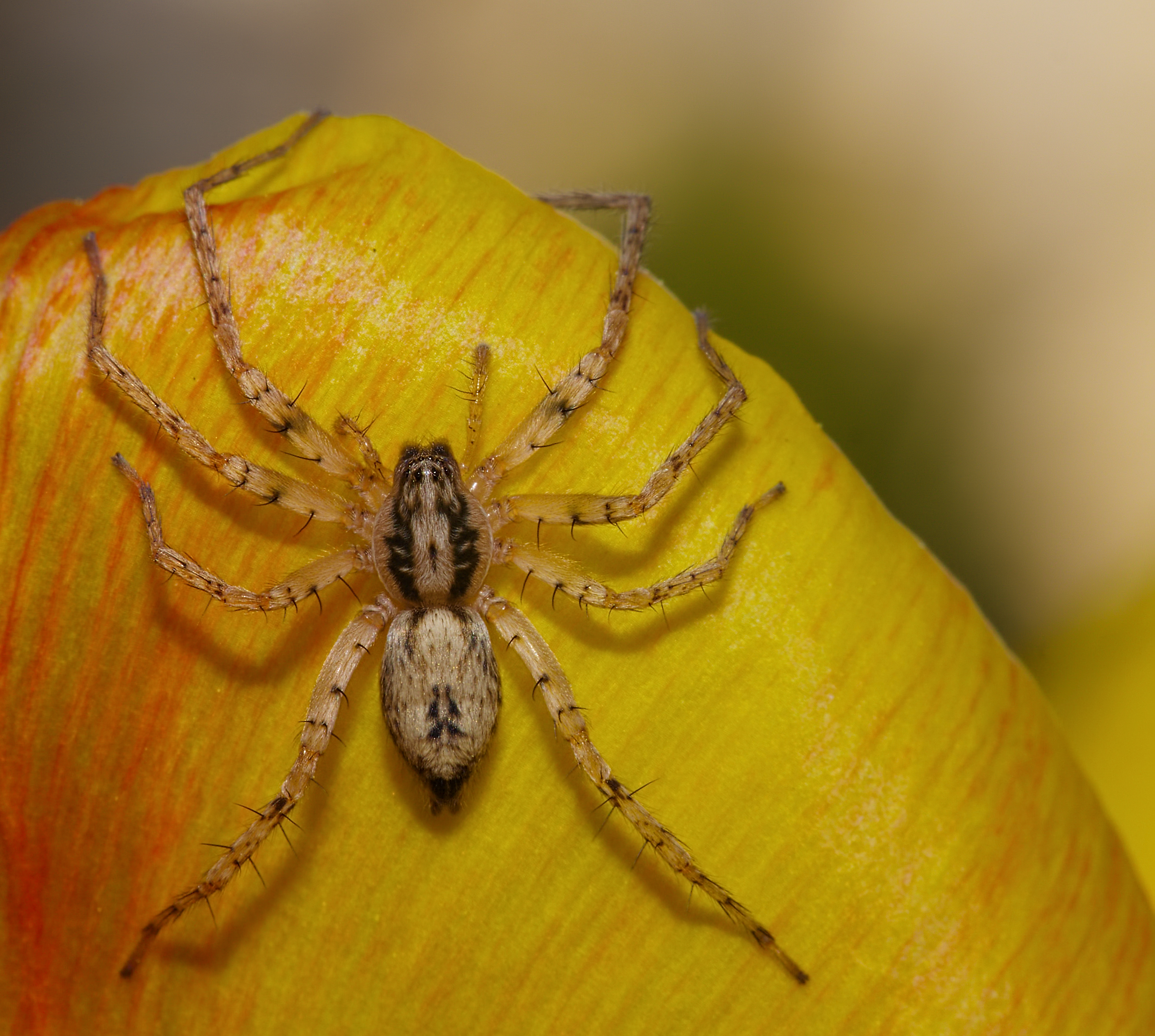 Anyphaena accentuata, female. Taken in Mannheim-Vogelstang, Baden-Württemberg, Germany.